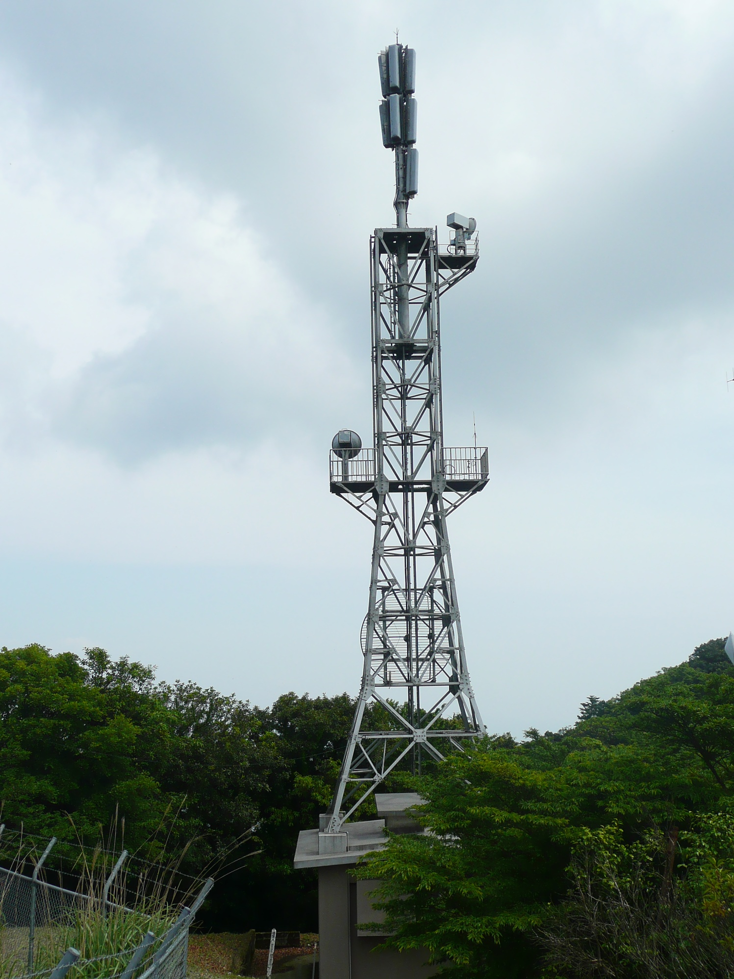 KKB (Kagoshima Broadcasting) Akune Repeater (Mt. Shibisan - Satsuma Town, Kagoshima, Japan)